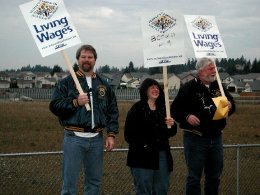 "Wake Up Walmart Campaign" requesting additional wages.